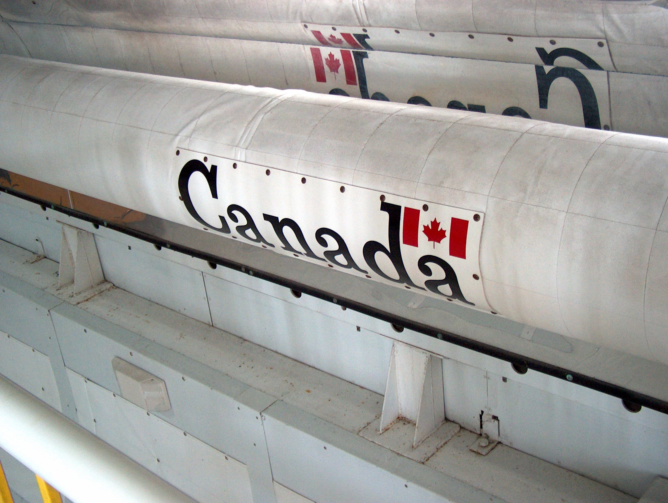 The Canadian contribution to the U.S. space shuttle (robotic arm). Photo taken at the Kennedy Space Center in Florida.